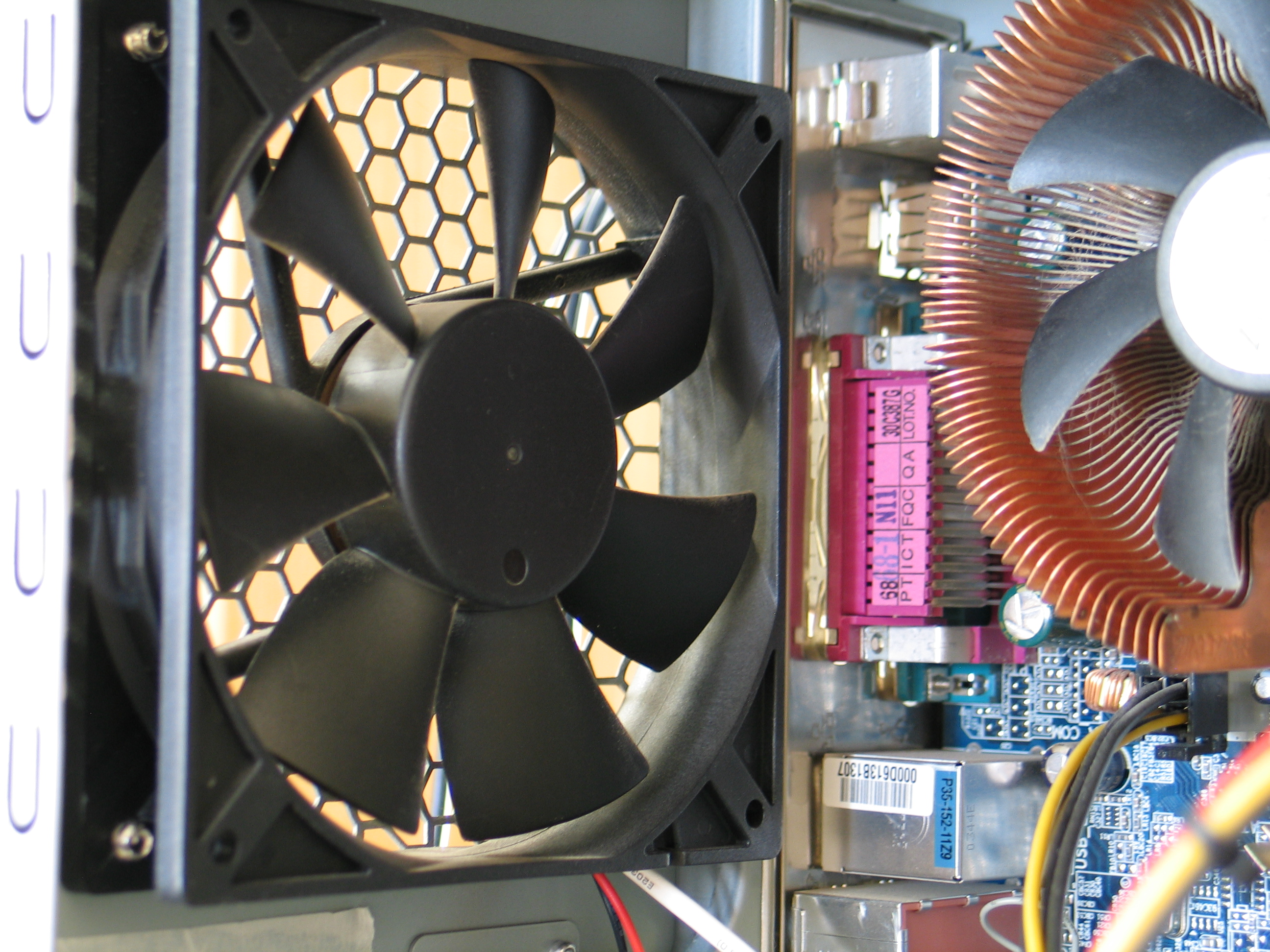 A large 180mm fan in a silent PC. This fan has a built-in 10-speed controller.